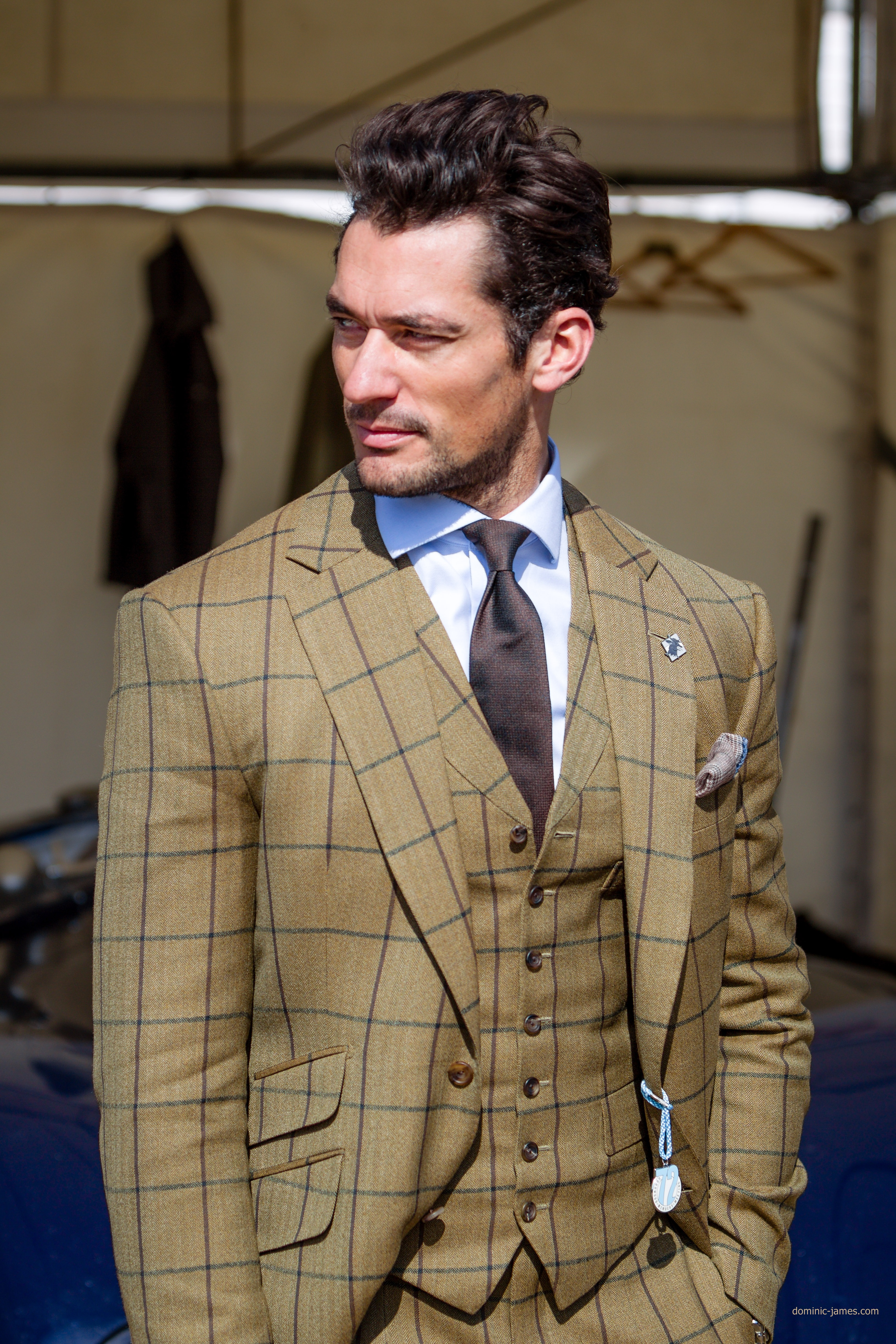 David Gandy, attending the 72nd Meeting of the Goodwood Members, wearing a bespoke suit by Henry Poole & Co (29 Mar 2014)